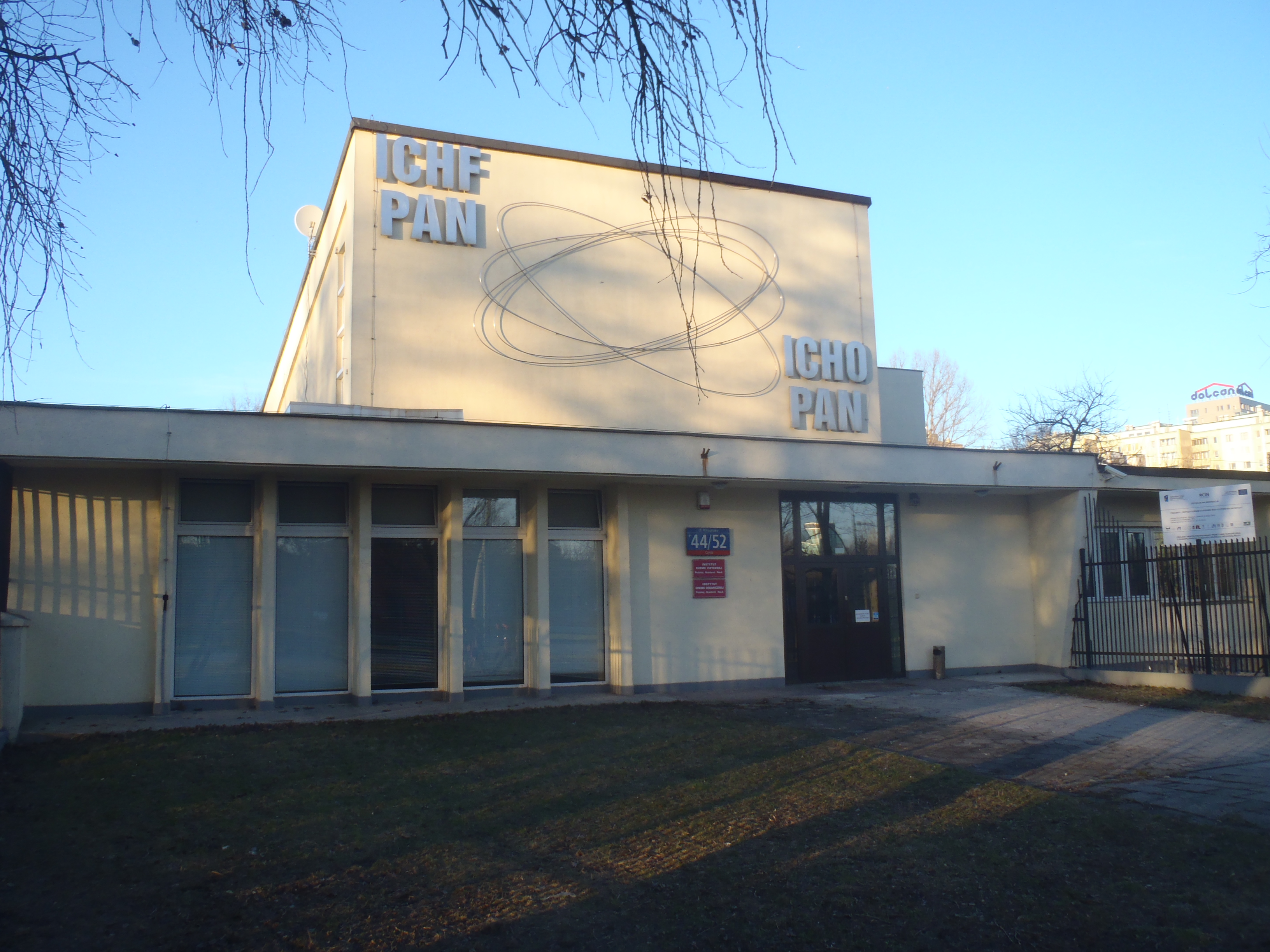 Seat of PAS Institutes: Institute of Physical Chemistry and Institute of Organic Chemistry at 44/52 Kasprzaka street, Warsaw, Poland